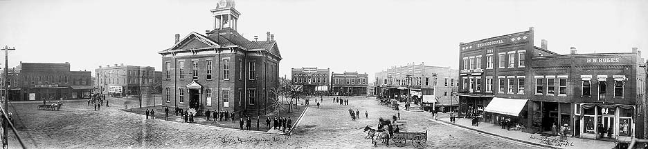 Penny Postcards from Williamson County around 1910